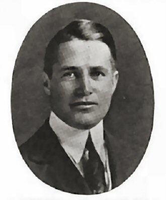 Silent film director Raymond B. West.